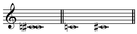 Augmented unison on C = C♯. Just: 25:24 = 70.67 cents. Equal-tempered: 21/12:1 = 100 cents.